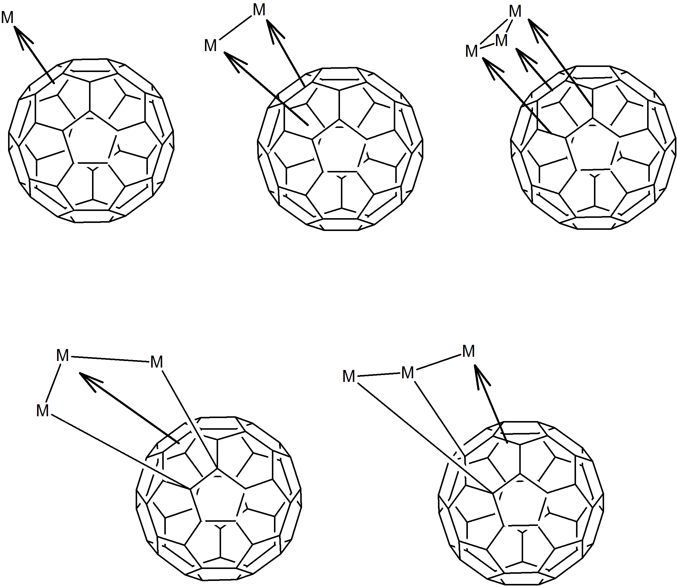 multi metal binding on fullerene